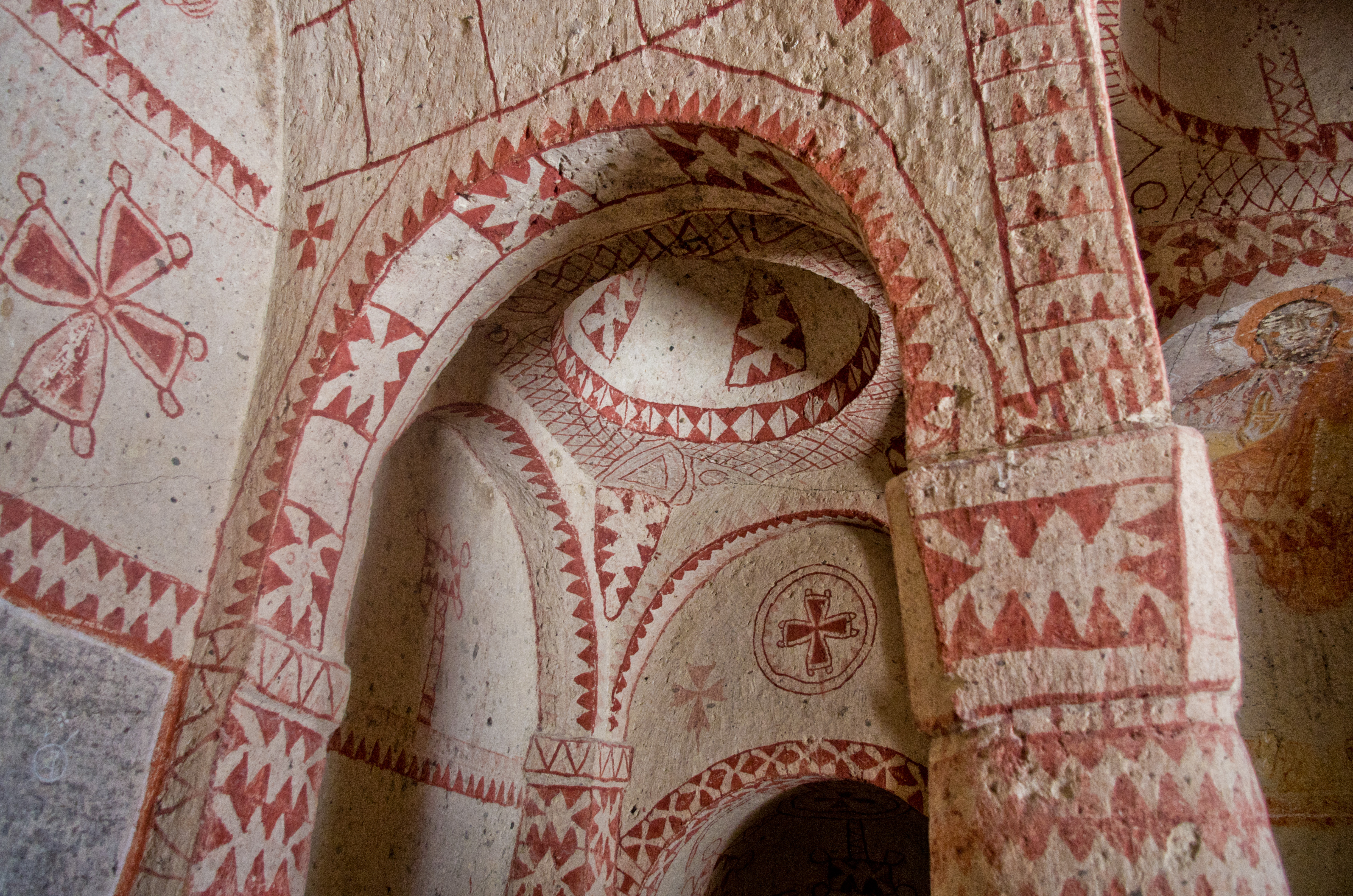 Barbara kilise